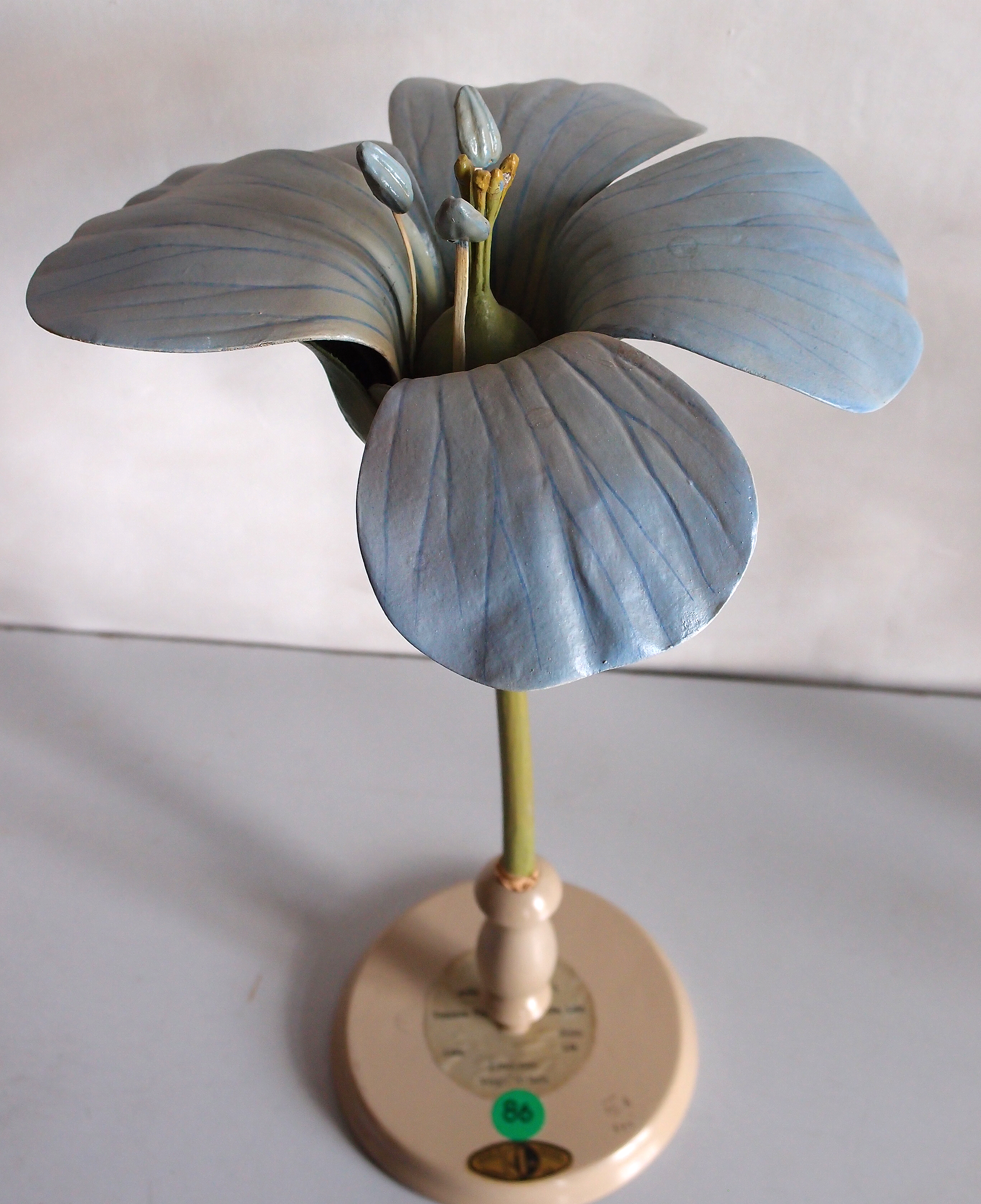 Model from the collection of the Botanical Museum in Greifswald, Germany. . see also for more information on the models